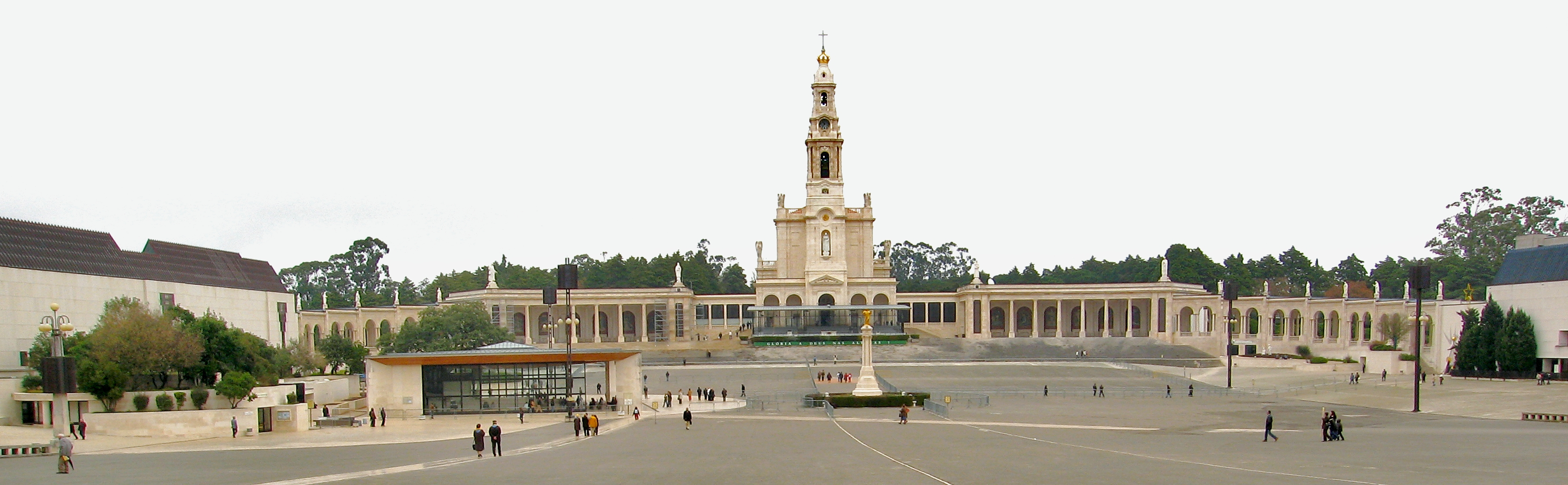 The Basilica of Fátima